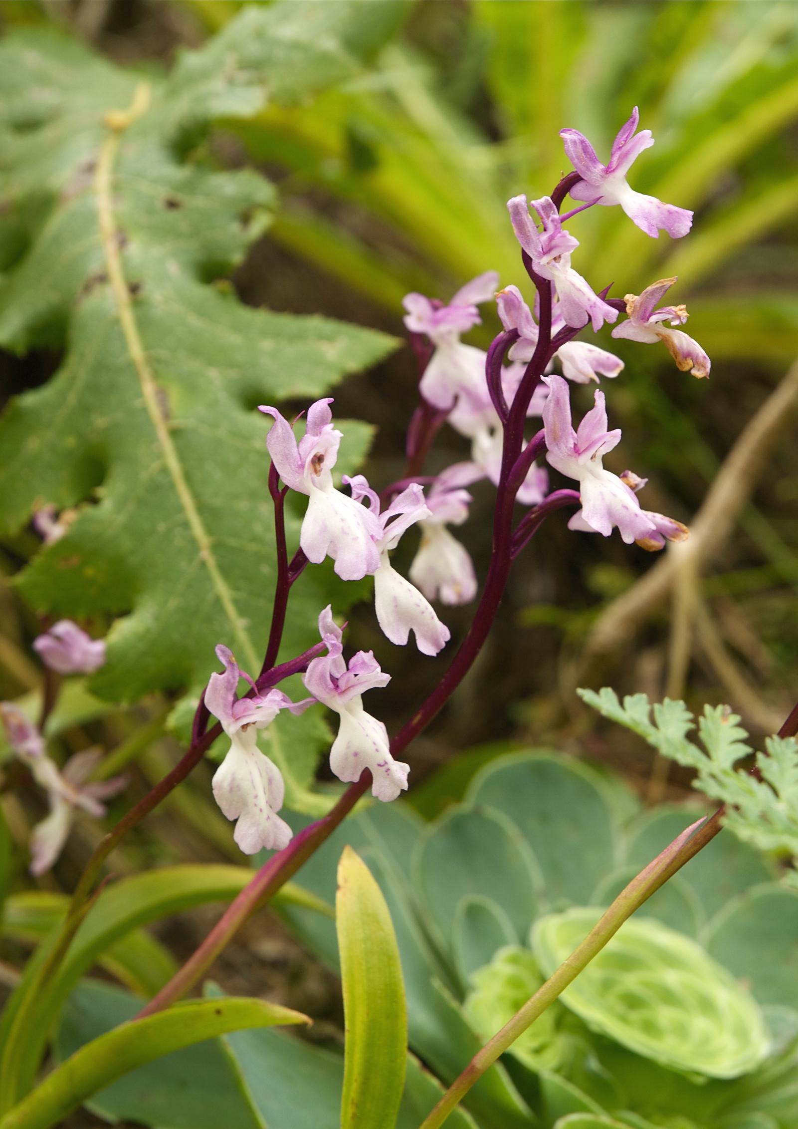 Canary orchid (Orchis canariensis), Tenerife, Spain